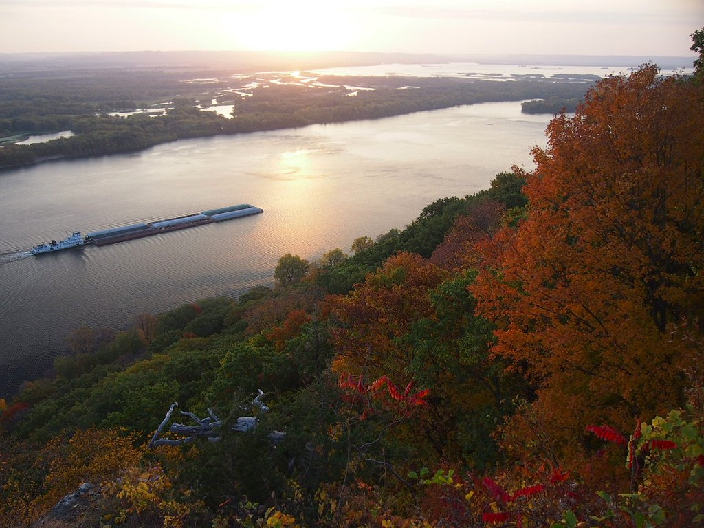 Mississippi River, barge, and Lake Onalaska from Great River Bluffs State Park, Minnesota, USA